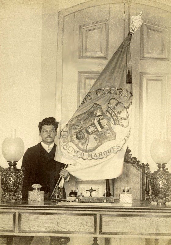 The photograph above shows Alfredo Pereira de Lima in "The Municipal Palace of Lourenço Marques" with the Standard of the city. The banner came from Lisbon in 1888. This ceremonial flag is in natural silk (green), with dimensions of 1.65 × 1.35 and with gold and silver embroidery. The golden metal staff of 2.25 meters is complete with a finial.